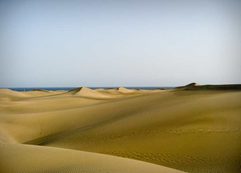 Gran Canaria, Wydmy w Maspalomas